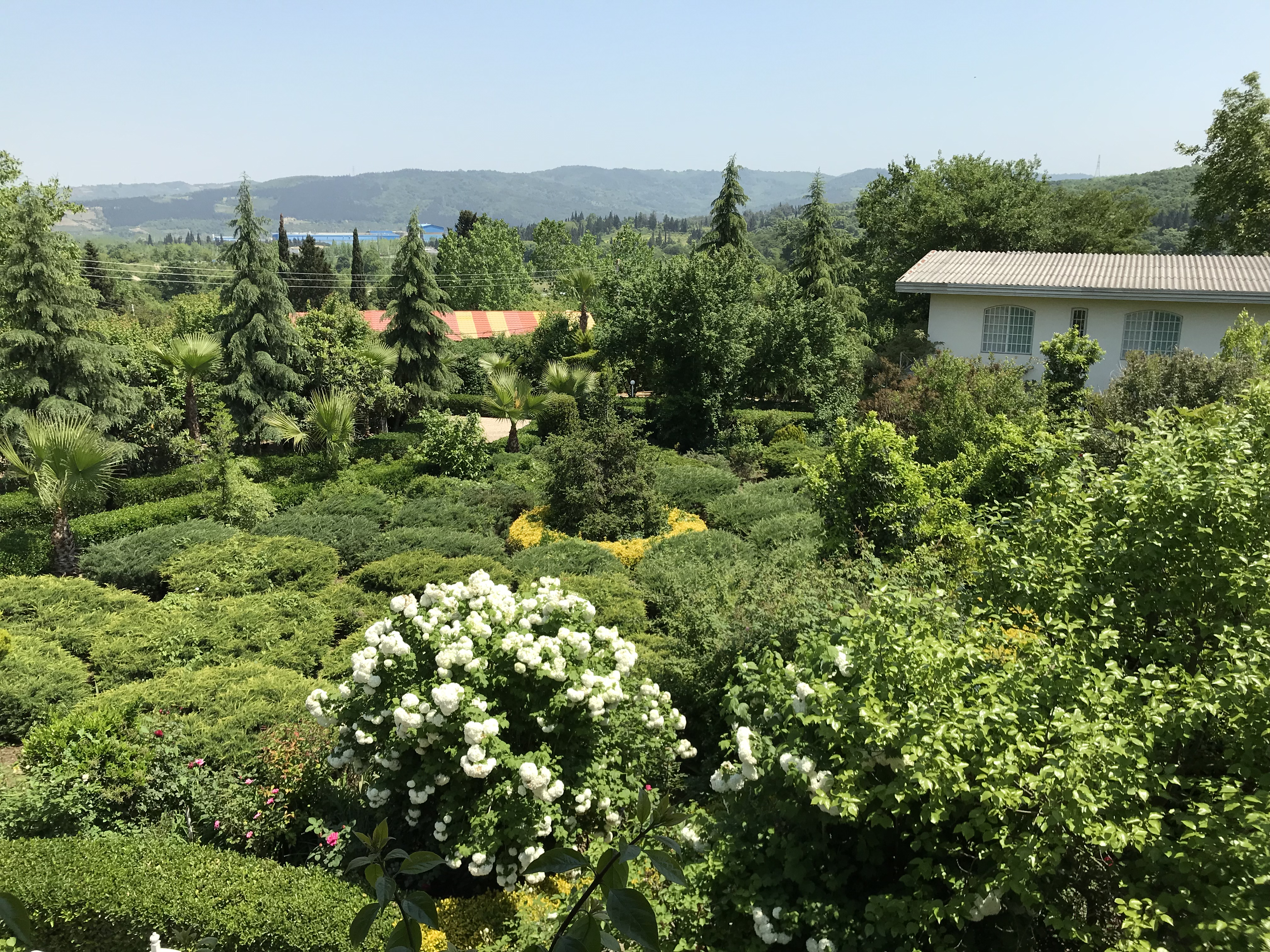 روستای دروار